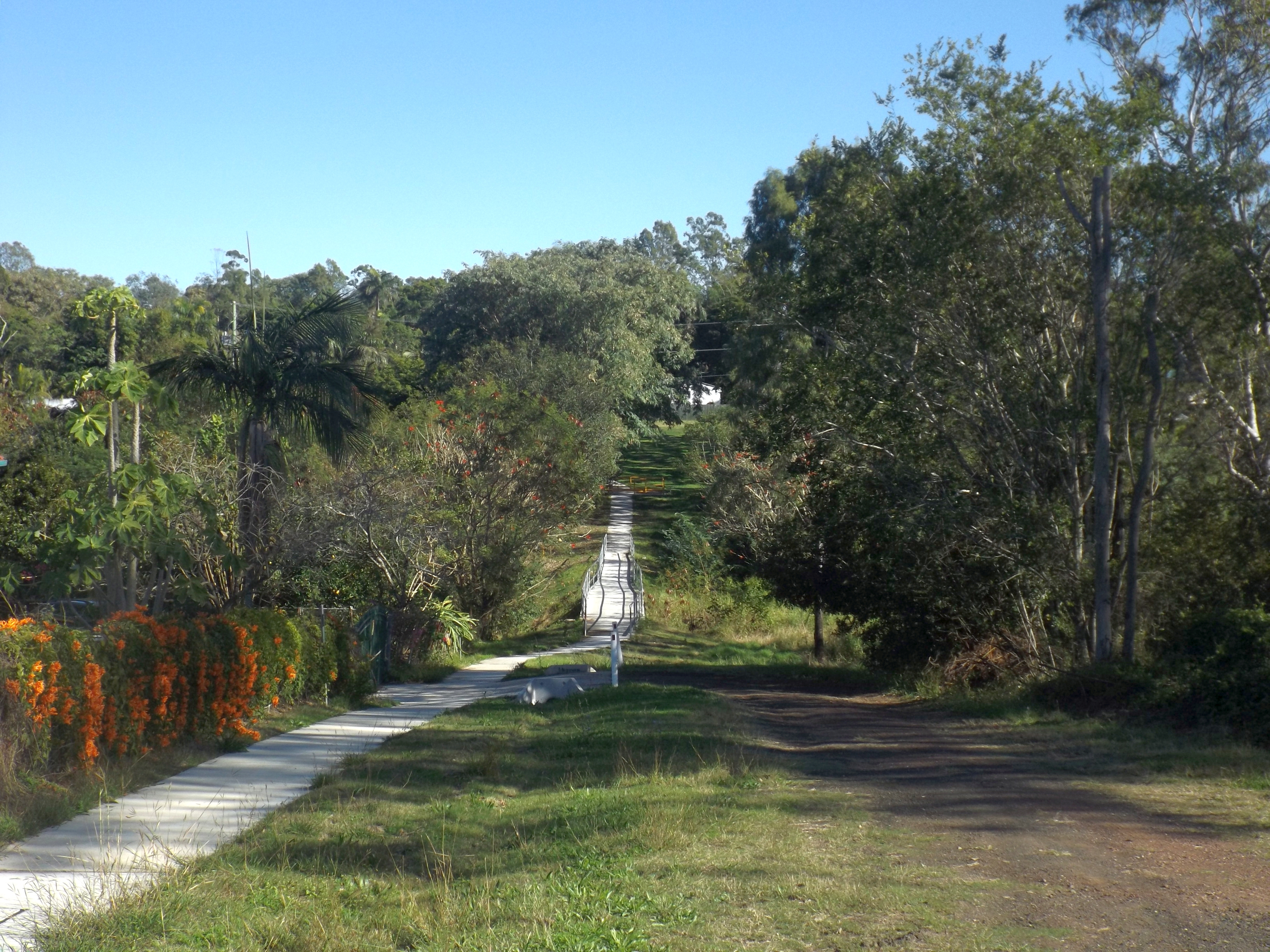 Photo of pedestrian path along Jones Road at Bellbird Park in City of Ipswich, Queensland, Australia.